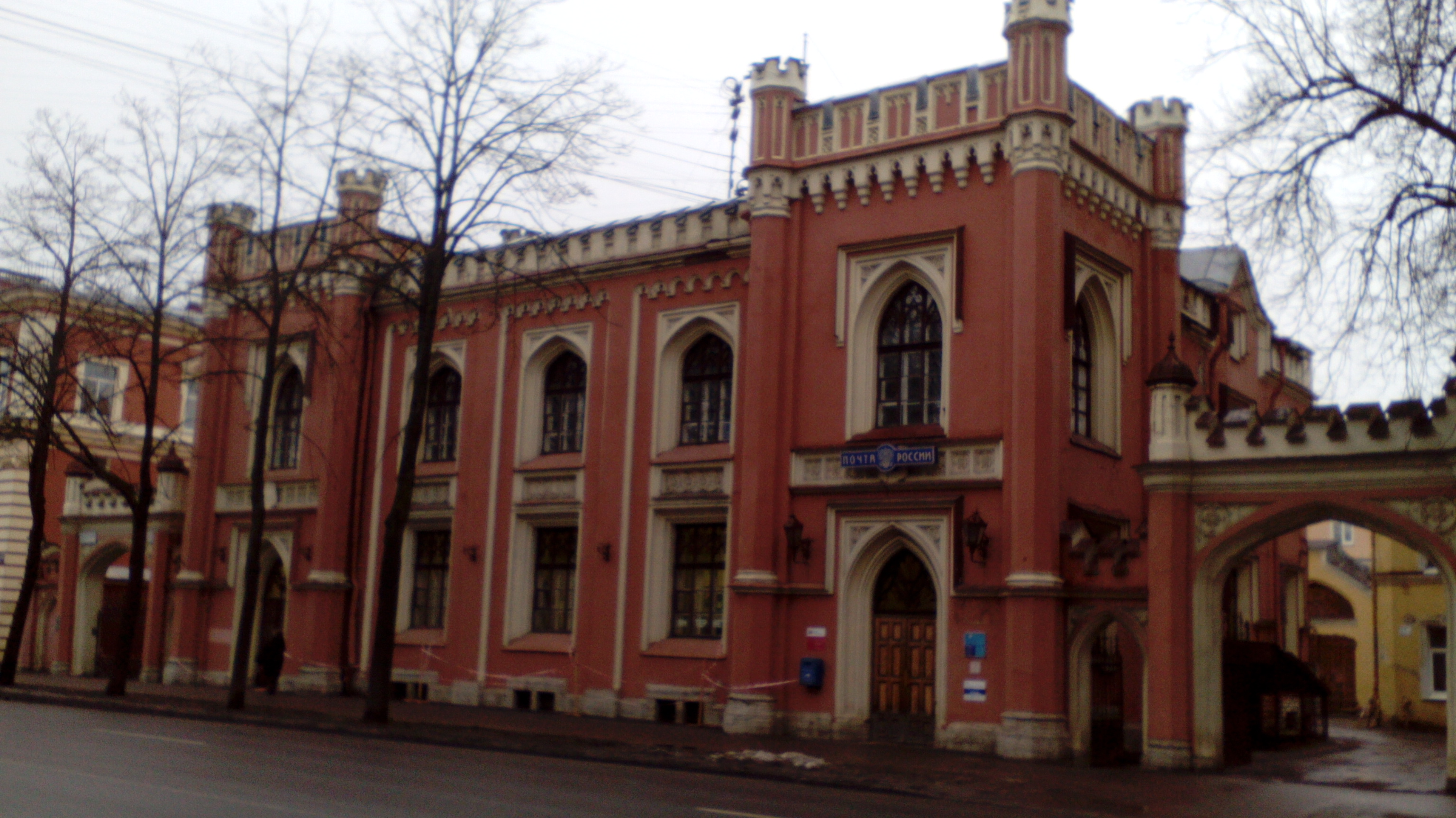 Petergof, the building of post office